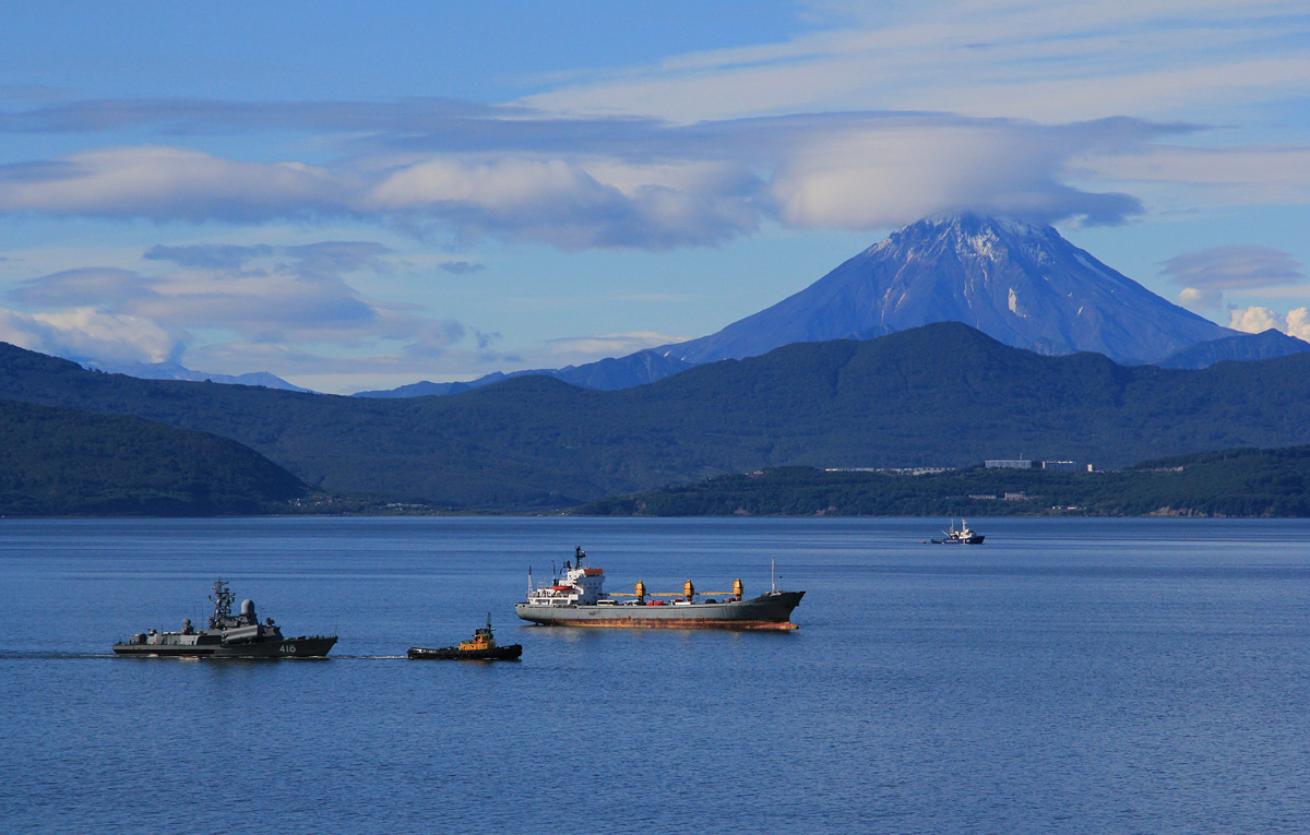 Frost Olympos in Avacha Bay Petropavlovsk-Kamchatskiy 27 August 2010 (Iney assisted by RB-262; patrol vessel of the coast guard of the Russian Federation, ZATO (closed administrative-territorial formation) Vilyuchinsk and Vilyuchik in the background)